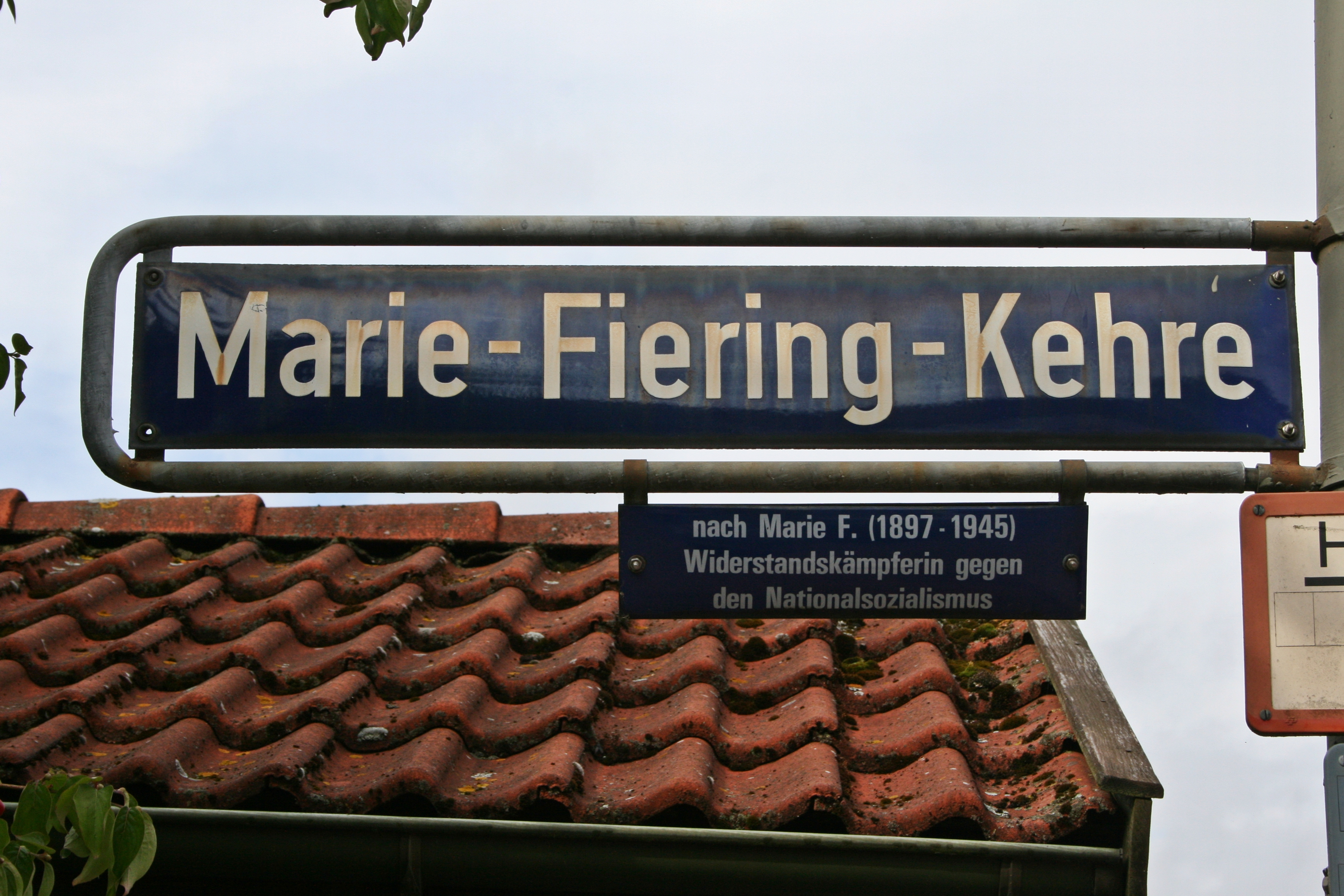 Road sign of the Marie-Fiering-Kehre, named after a member of the resistance against Nazism